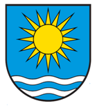 Coat of arms of Mettauertal, Switzerland